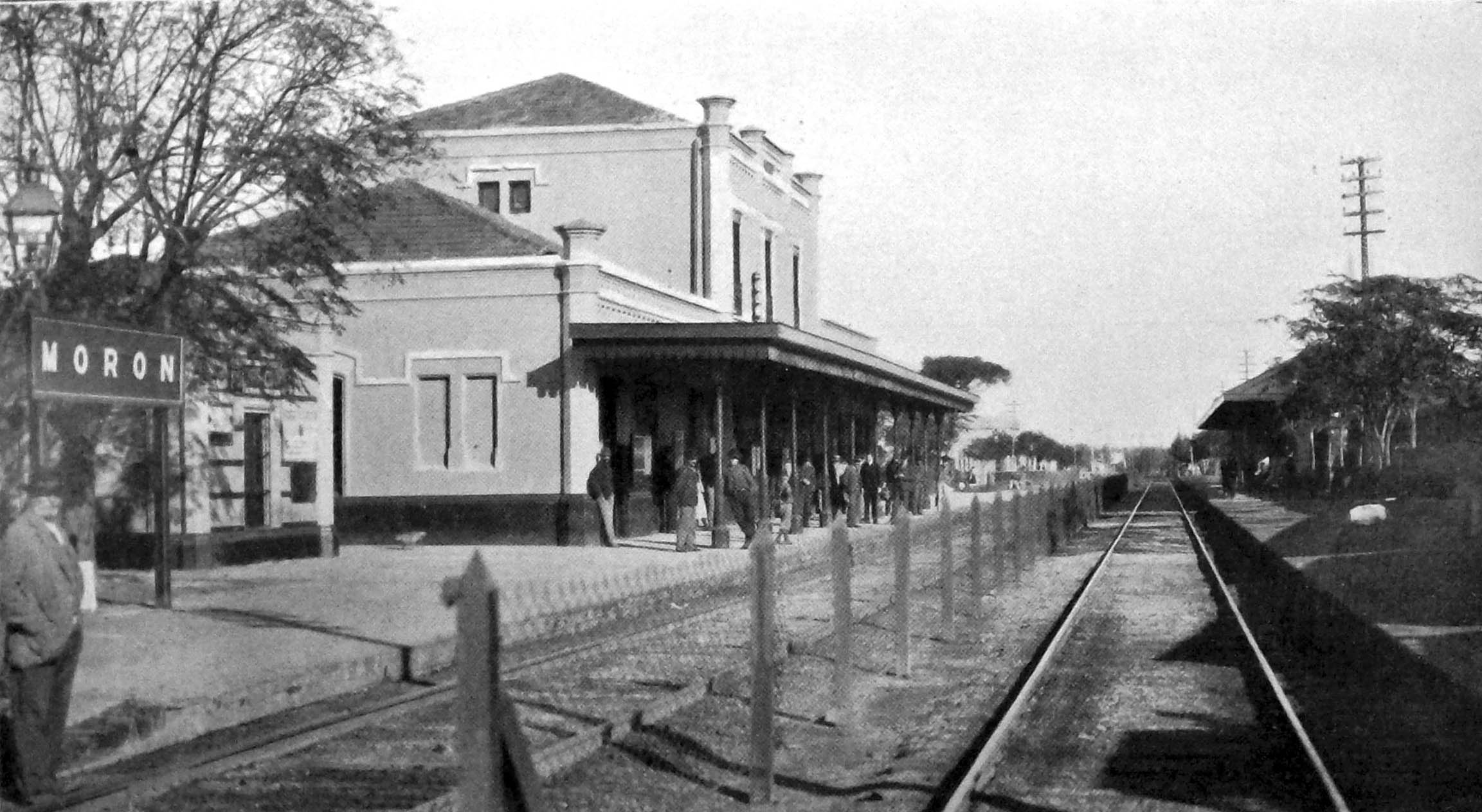 Moron station of BA Western Railway.